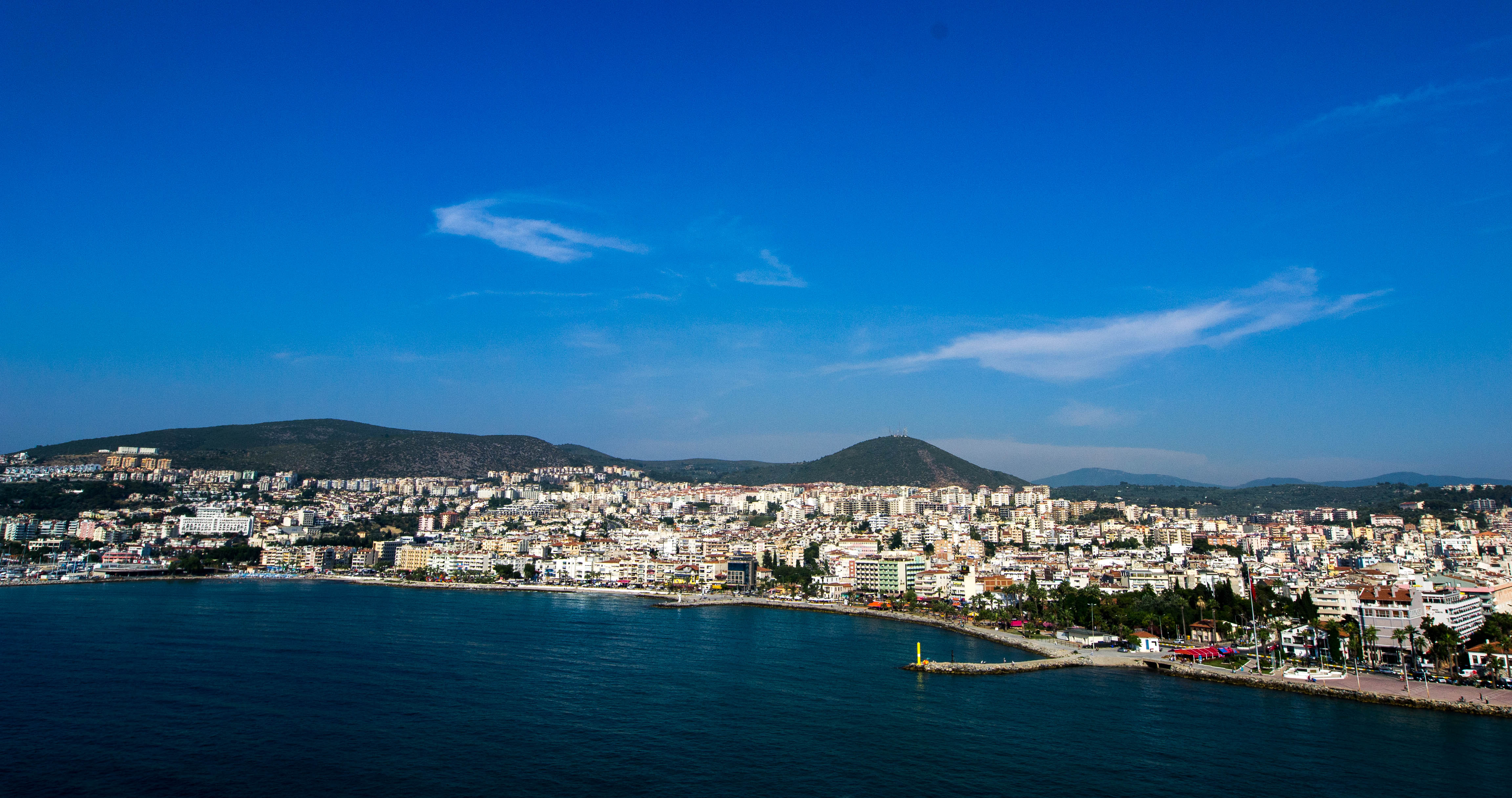 An overlook of the city center on a clear summer day